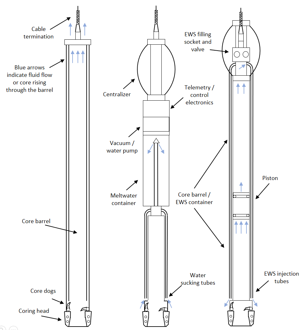 Schematics of three kinds of thermal coring ice drill. From left: (a) open top core barrel, drills in meltwater; (b) removes meltwater and stores in chamber above core; (c) uses ethanol as an antifreeze and circulates the drilling fluid. Redrawn from Zagorodnov, V.; Thompson, L.G. (2014). "Thermal electric ice-core drills: history and new design options for intermediate-depth drilling". Annals of Glaciology. 55 (68): 322–330. p. 324.